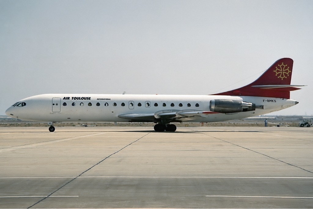 F-BMKS (cn 181), Air Toulouse International, Sud Aviation SE 210 Caravelle 10B3, Faro Airport